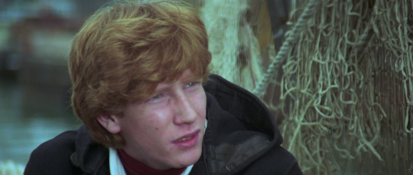 Actor Enzo Santaniello in a still from They Call Him Bulldozer (1978)